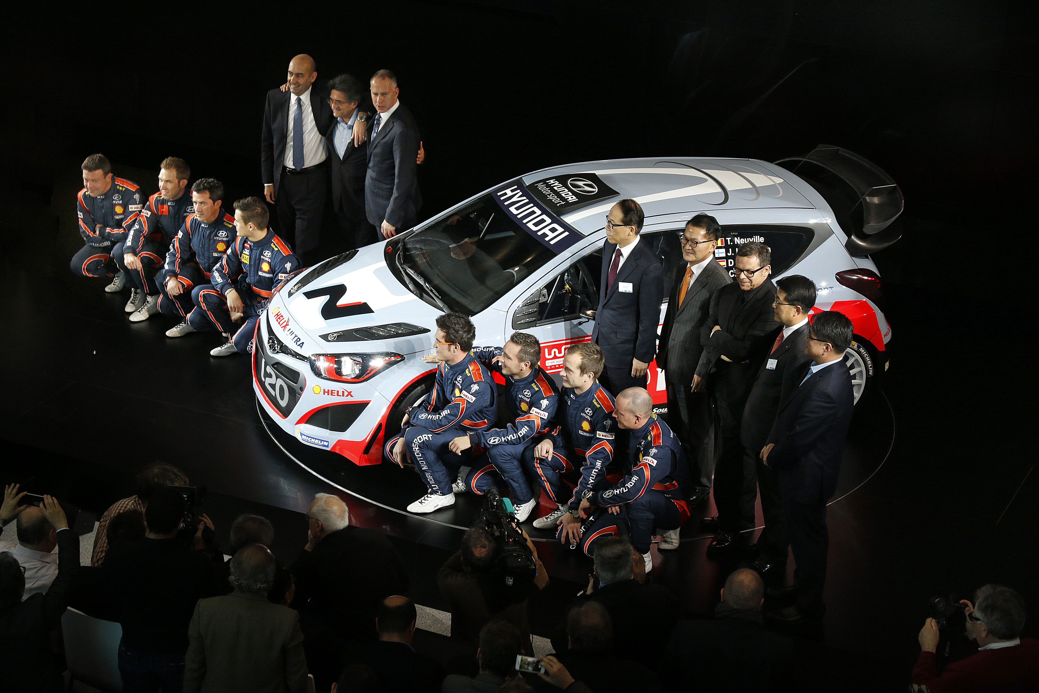 Launch of the Hyundai i20 WRC, set to compete in the 2014 World Rally Championship. From left to right, Hyundai Motorsport drivers and co-drivers: Stéphane Prévot, Chris Atkinson, Marc Martí, Dani Sordo,Thierry Neuville, Nicolas Gilsoul, Juho Hänninen and Tomi Tuominen. Second from left in the back row is Hyundai Motorsport team principal Michel Nandan.